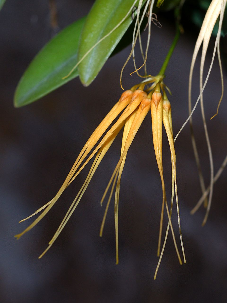 Bulbophyllum pecten-veneris